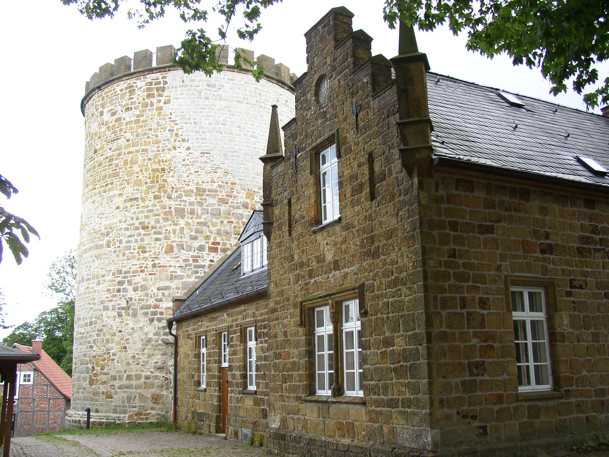 stronghold Ravensberg, fortified tower and forester's lodge, Borgholzhausen, county of Gütersloh, Germany